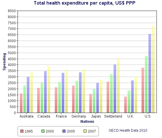 This image depicts the total health care services expenditure per capita, in U.S. dollars PPP-adjusted, for the nations of Australia, Canada, France, Germany, Japan, Switzerland, the United Kingdom, and the United States with the years 1995, 2000, 2005, and 2007 compared. An 'OECD Health Data 2010' report is used for the information, which is available here. Note that there is additional information in this list.